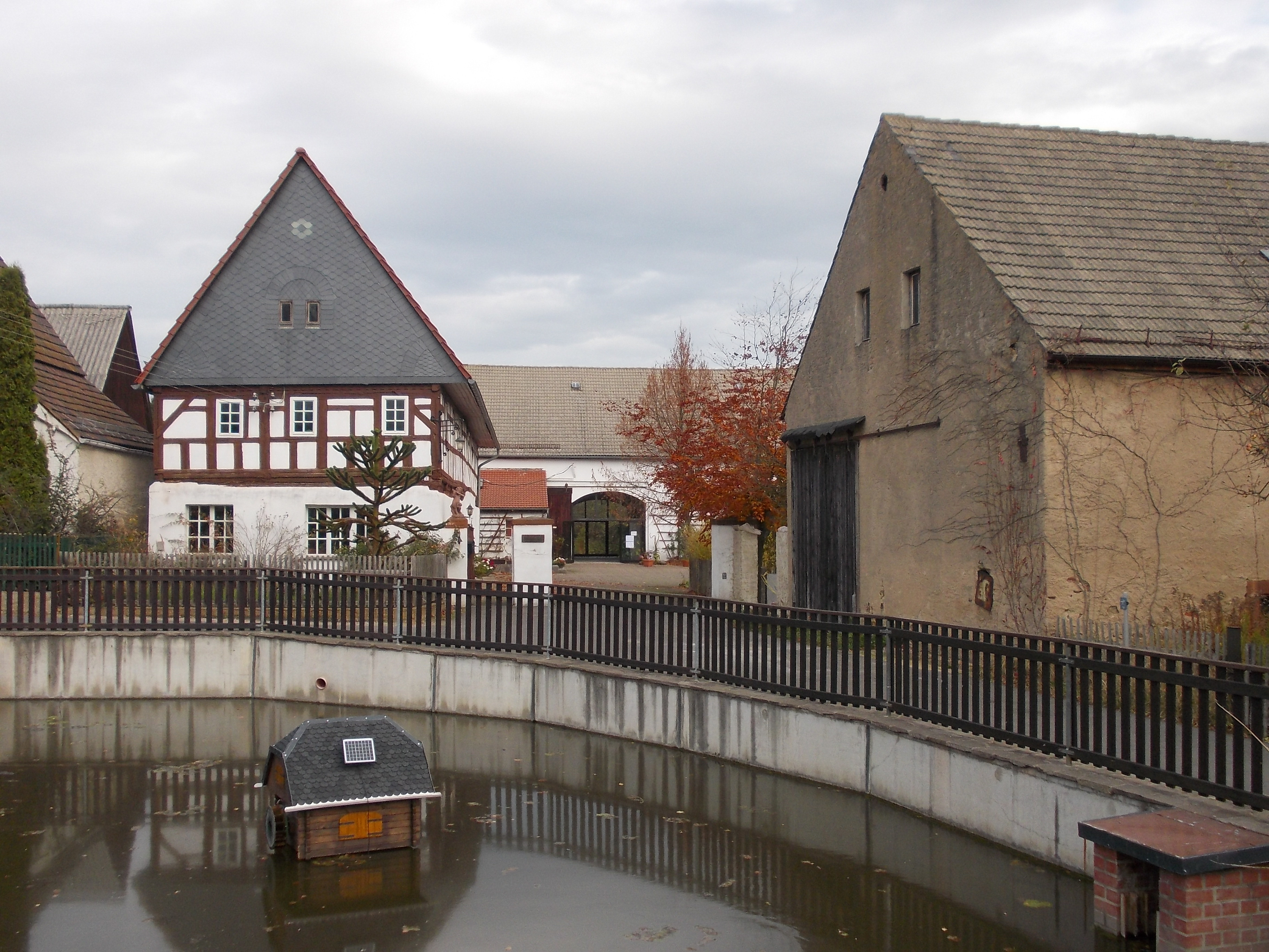 Friedel's Farm in Thierbaum (Bad Lausick, Leipzig district, Saxony)